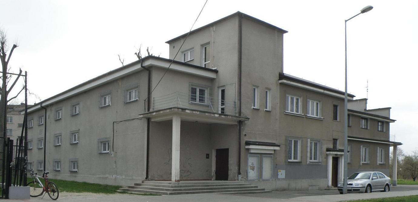 The building of a former cinema "Azot" in Moscice, Tarnow, Poland.